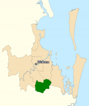 This image incorporates data that is: © Commonwealth of Australia (Australian Electoral Commission) 2009 Division of Rankin 2010